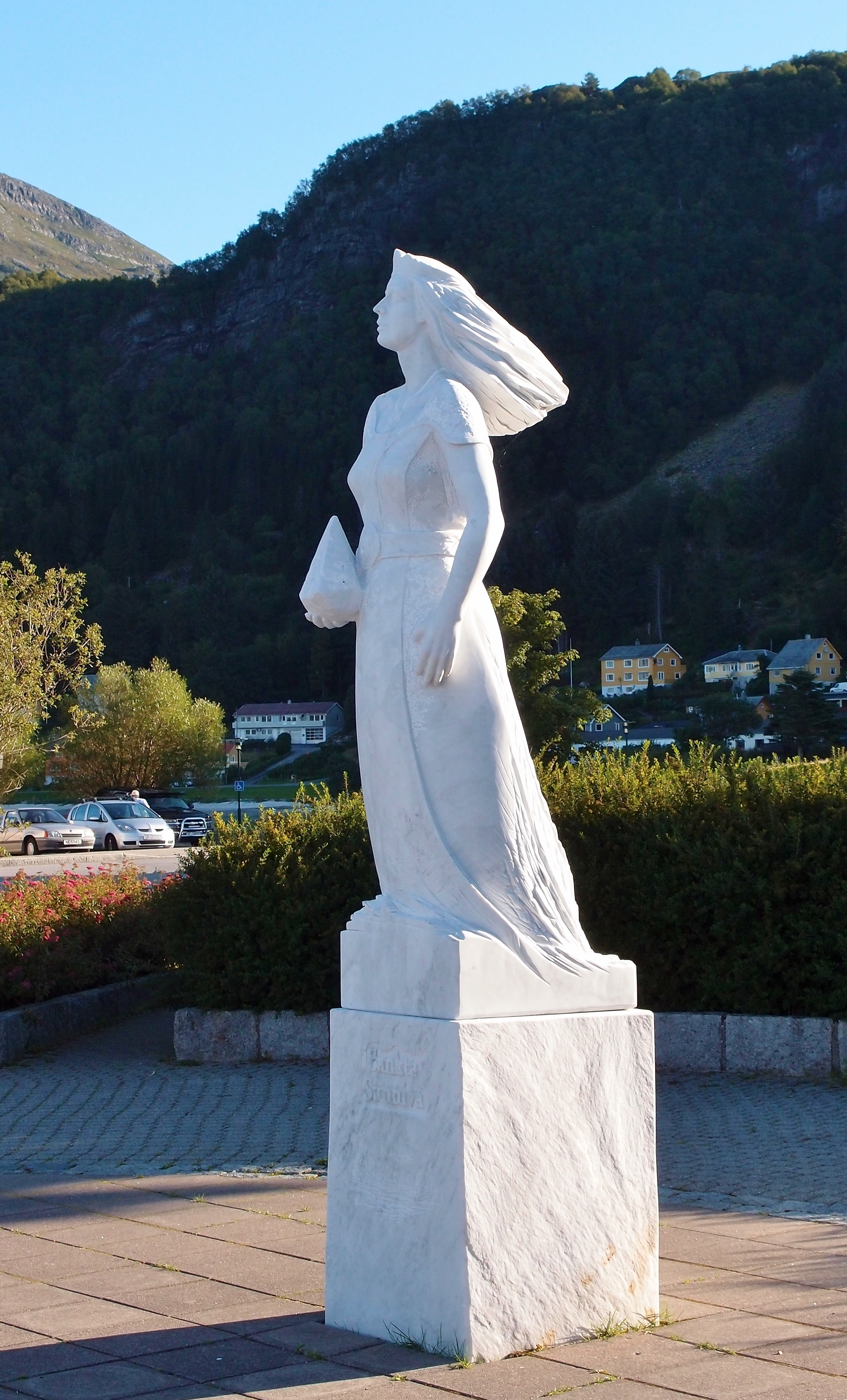 Marble statue of the Norwegian Saint Sunniva of Selja, patron saint of Western Norway. The statue is placed next to the harbour in Selje in the north-western part of the county of Sogn og Fjordane. Sculptor: Arne Meland.